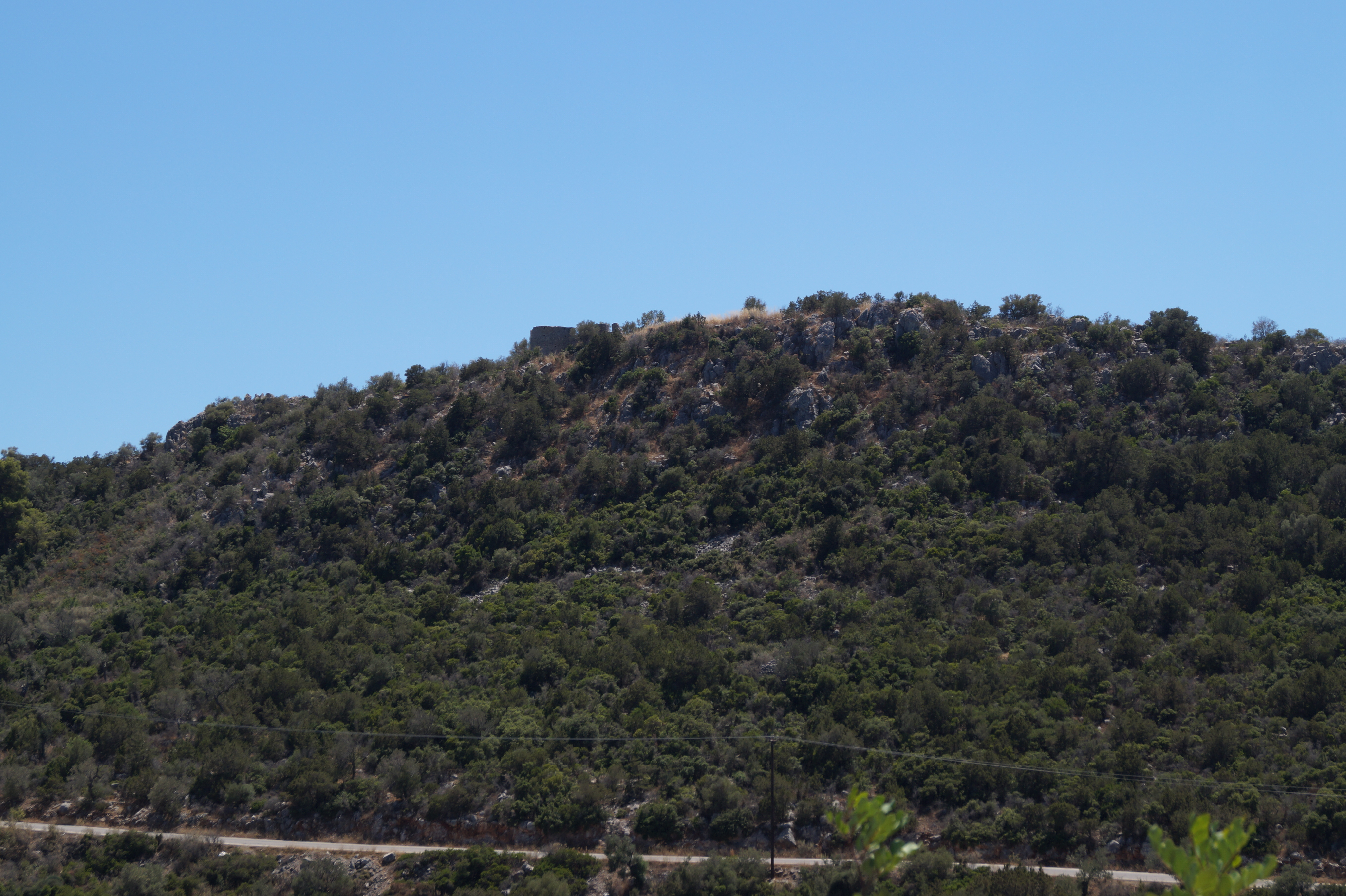 Methana, Greece: Isthmus of Methana, Castle of Favieros on summit.